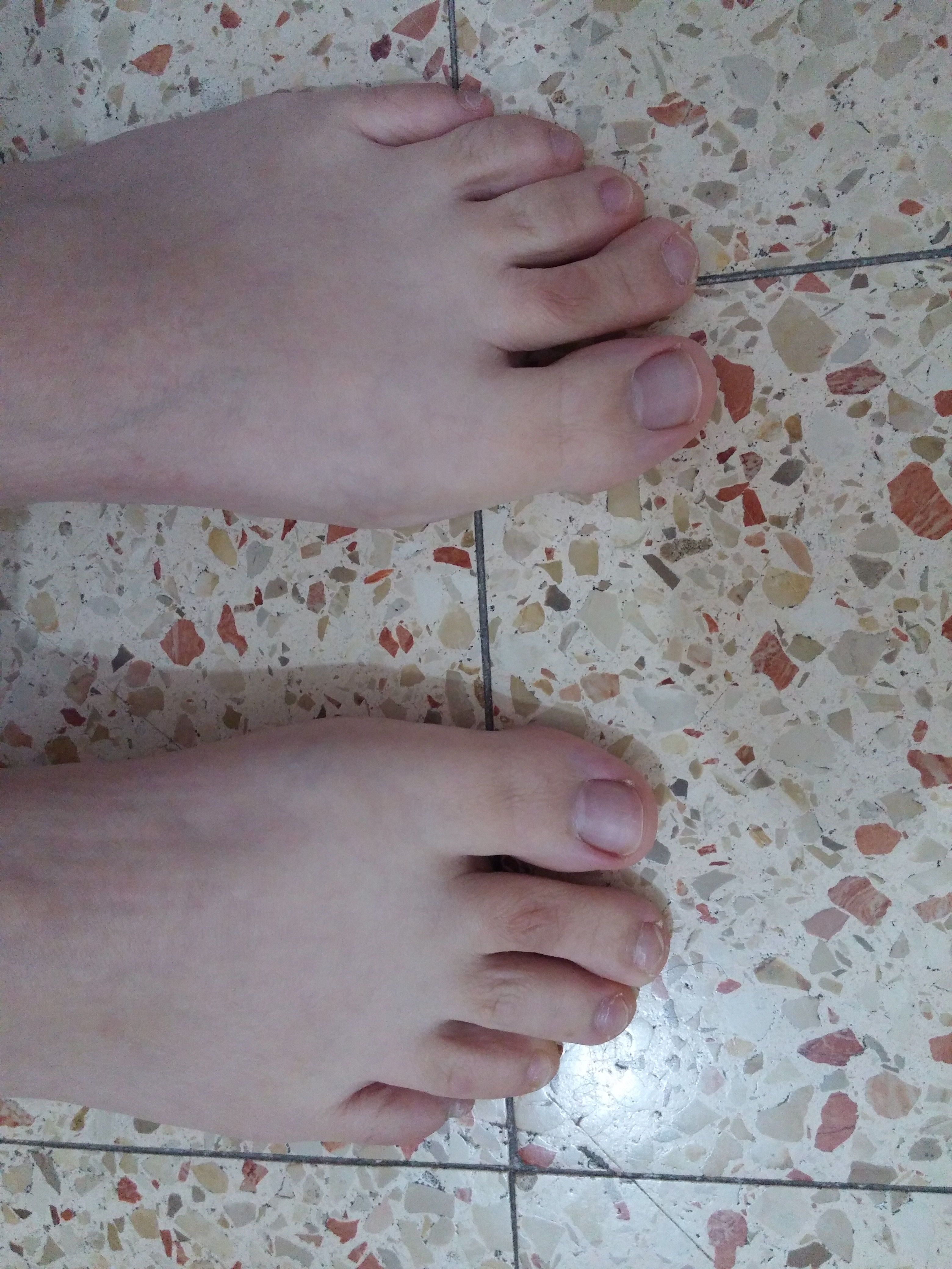 Feet on floor